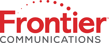 Frontier Logo